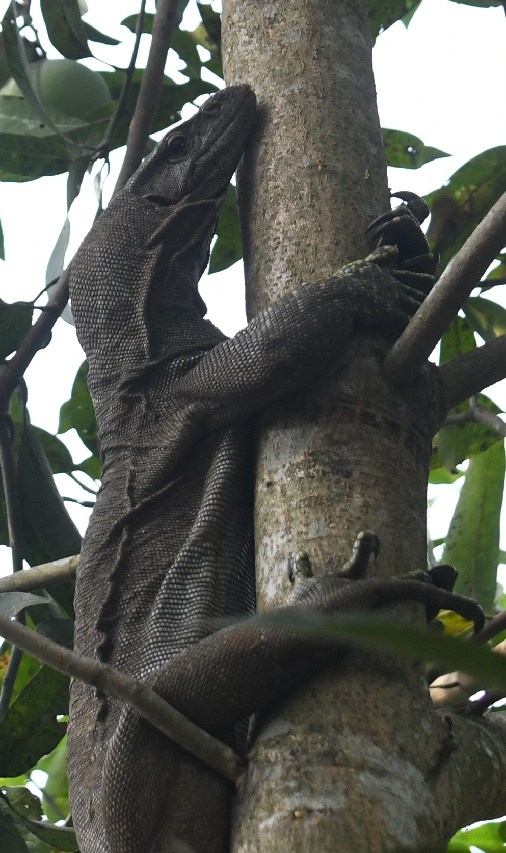 Varanus bengalensis